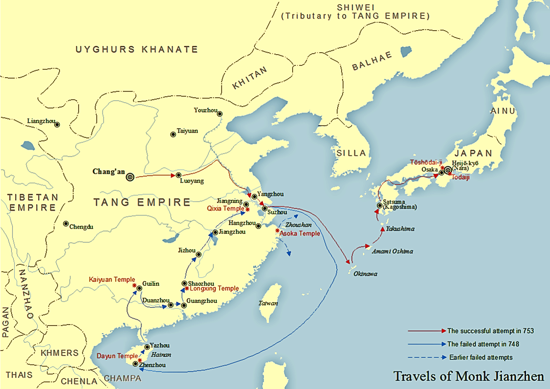 Map showing travels of the Monk Jianzhen to Nara Japan in Tang dynasty